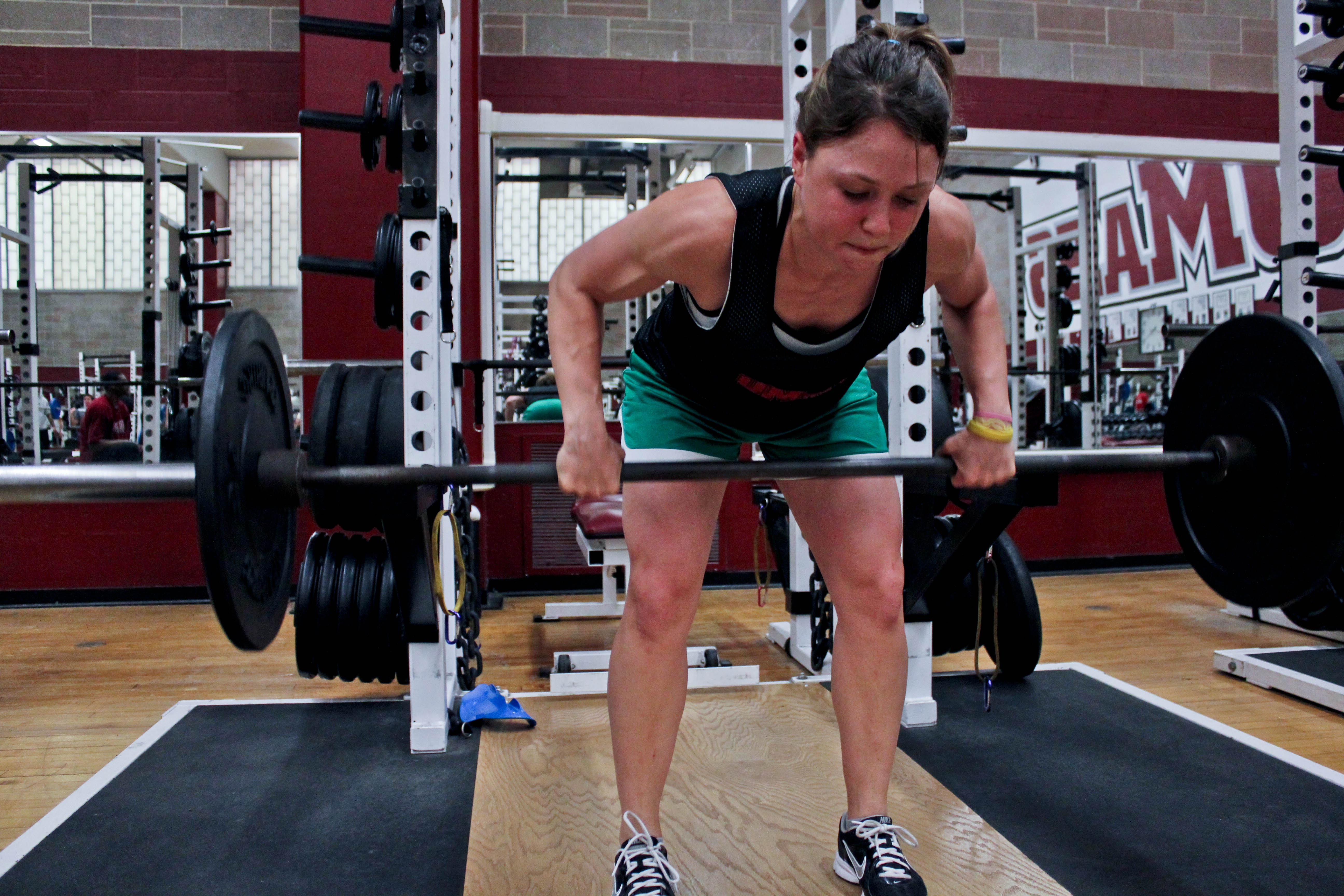 Barbell rowing